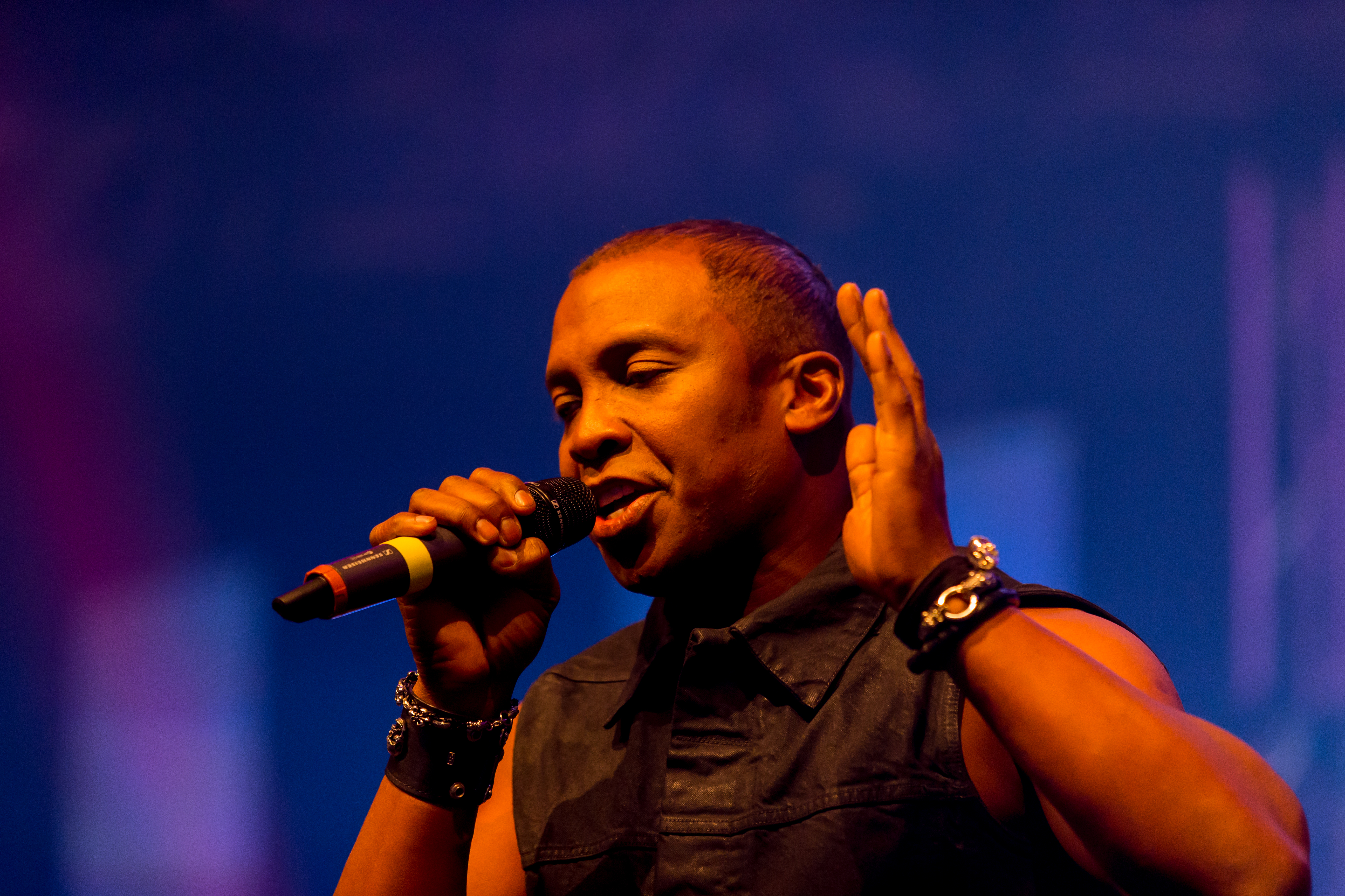 sunshine live "Die 90er - Live On Stage" Maimarkthalle Mannheim DJ Falk, Magic Affair, Captain Hollywood Project, Haddaway, Masterboy, 2 Unlimited, Marusha, Charly Lownoise